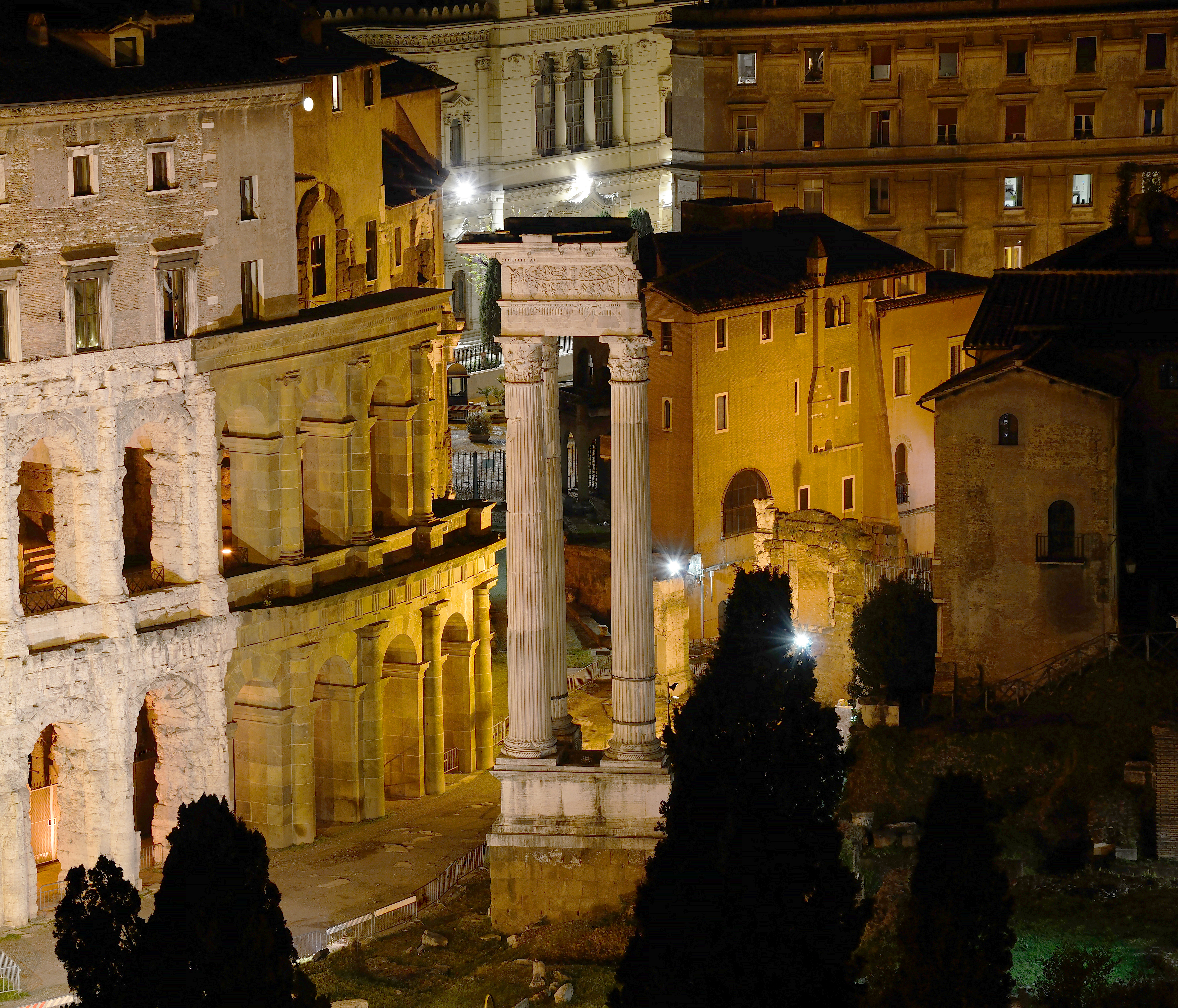 Temple of Apollo Sosianus at Night